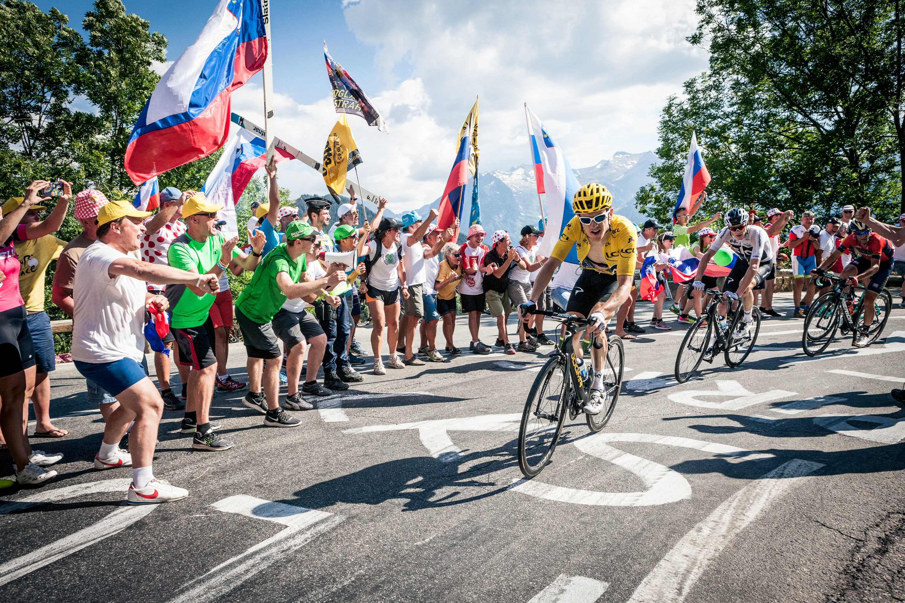 Geraint Thomas on the climb to Alpe d'Huez at the Tour de France 2018, wearing the yellow leader's jersey